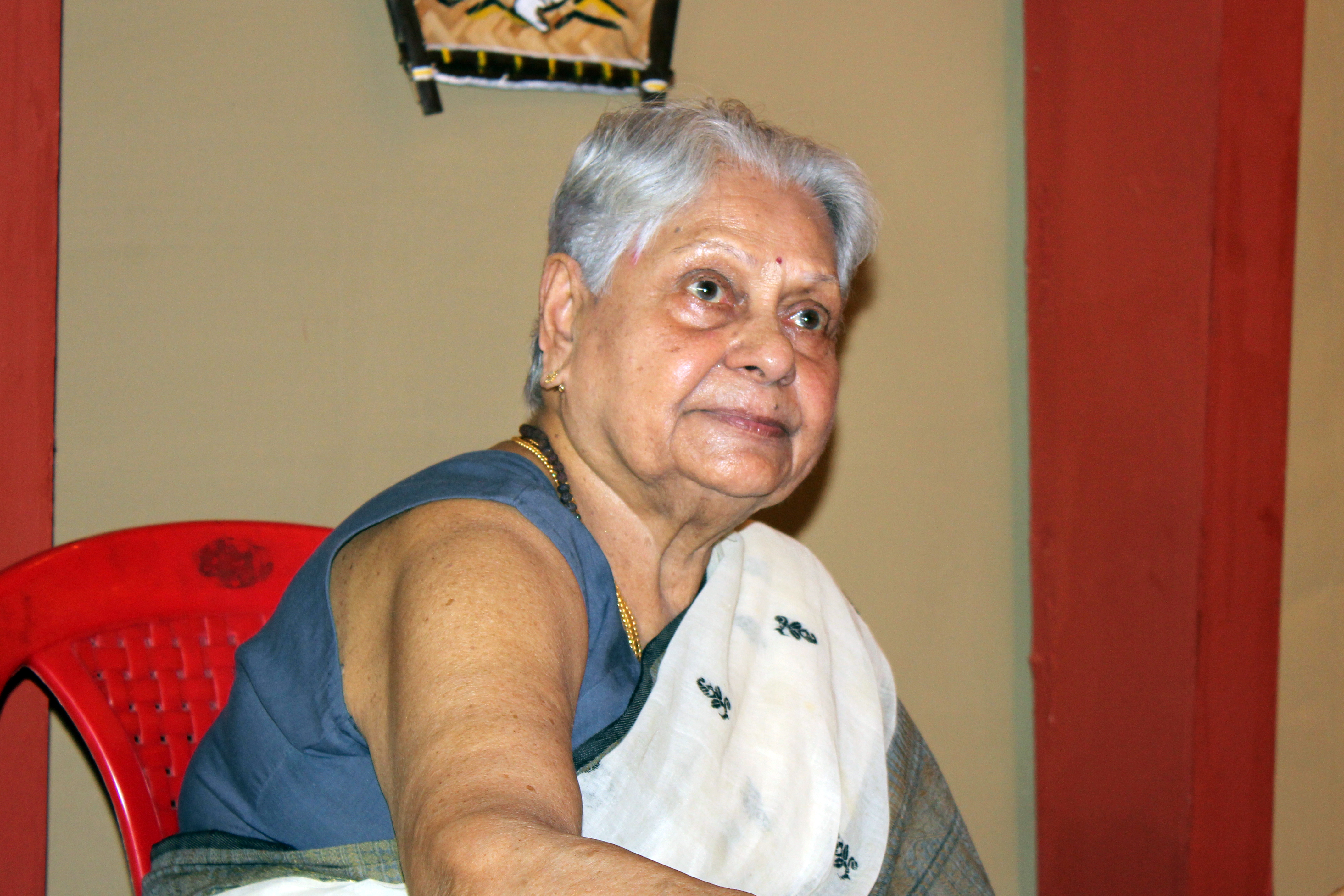 Indira Bhaduri, Jaya Bachchan’s mother, Amitabh Bachchn's mother-in-law she lives in Bhopal